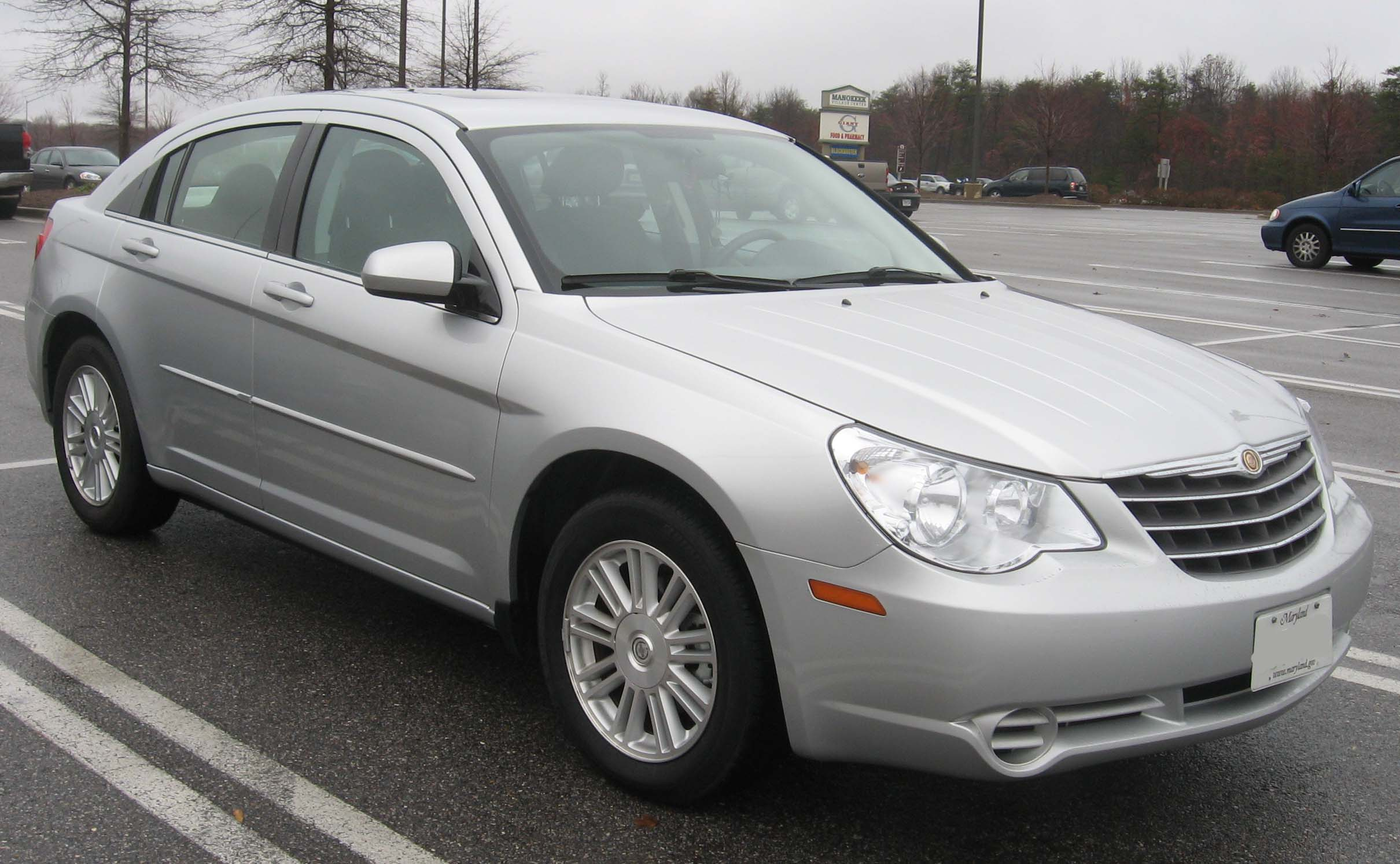 2007-2008 Chrysler Sebring photographed in Accokeek, Maryland, USA.